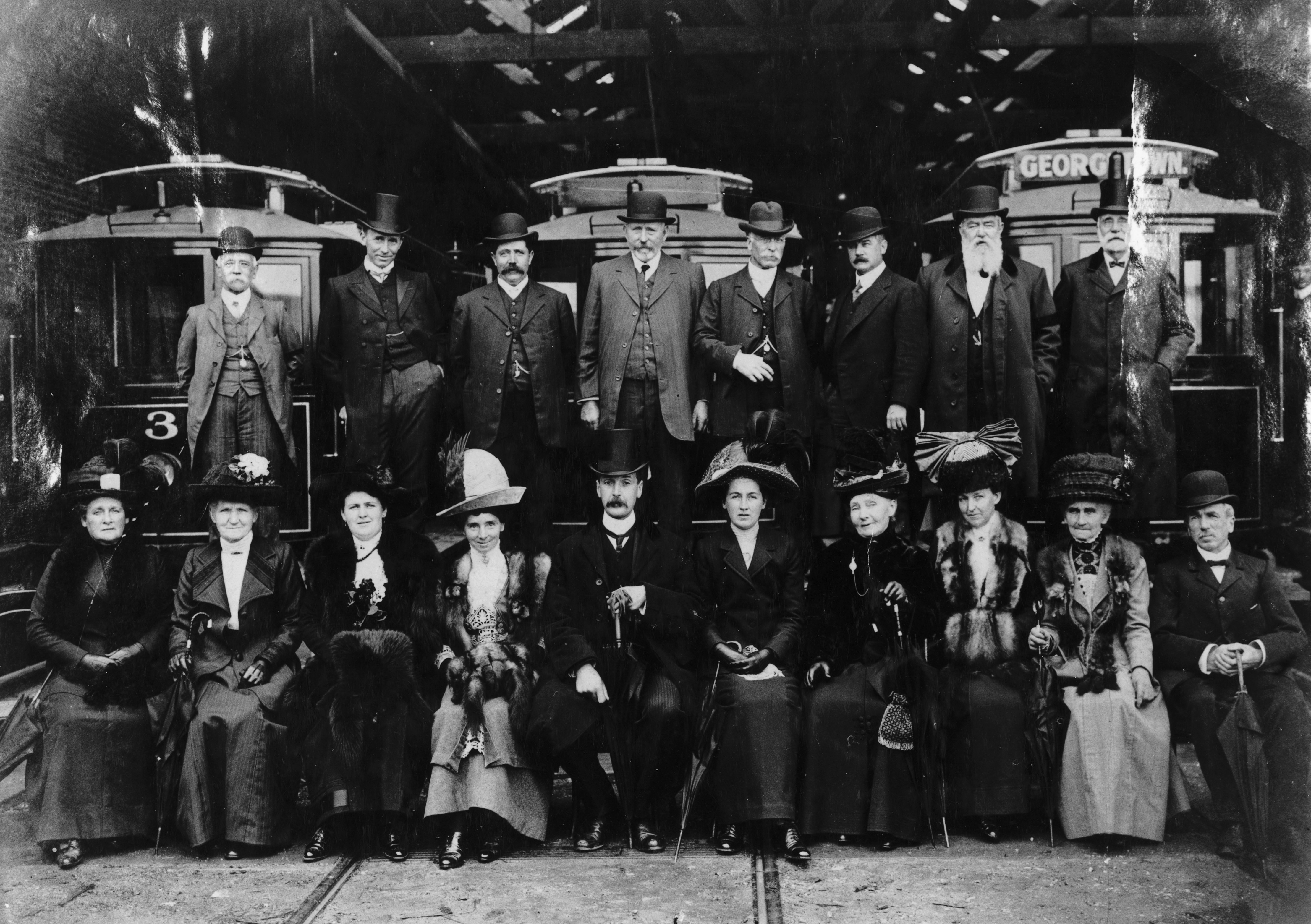 Group portrait taken at the opening of the Invercargill Electrical Tramways, March 1912. Left to right, standing, John Stead (25th Mayor of Invercargill), Scott Symington (engineer and manager), Andrew Bain (30th Mayor of Invercargill), W Baird, Thomas Fleming (16th Mayor of Invercargill), A F Hawke, D McFarlane and William Benjamin Scandrettt (21st Mayor of Invercargill). Front row, centre: William A Ott, (28th Mayor of Invercargill). Front row, extreme right: T Walker (Town Clerk). Women, and photographer, unidentified.